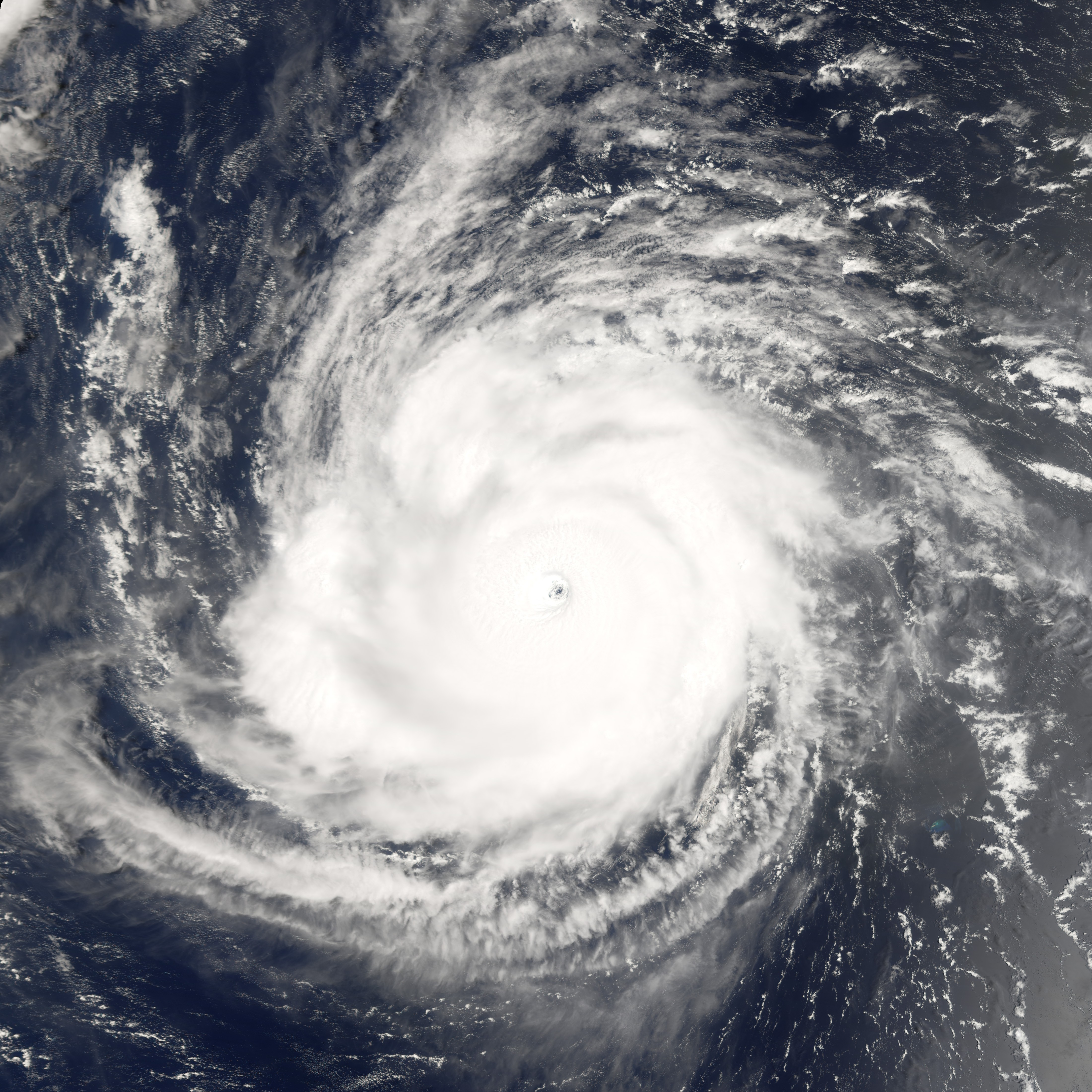 Hurricane Ioke started as all tropical cyclones do, as a depression—an area of low atmospheric pressure. After forming August 19, 2006, the depression quickly developed into a tropical storm, the threshold for earning a name. Ioke is the Hawaiian word for the name “Joyce.” Storms and hurricanes in the central Pacific are unusual, but they occur often enough for there to be a naming convention, applied by the Central Pacific Hurricane Center in Honolulu. The last named central Pacific storm was Huko in 2002. Ioke rose all the way to hurricane strength in less than 24 hours. Hurricane Ioke at the time of this image had a well-defined round shape, clear spiral-arm structure, and a distinct but cloud-filled (or “closed”) eye. The University of Hawaii’s Tropical Storm Information Center reported that Hurricane Ioke had sustained winds of around 255 kilometers per hour (160 miles per hour) at the time this satellite image was acquired.